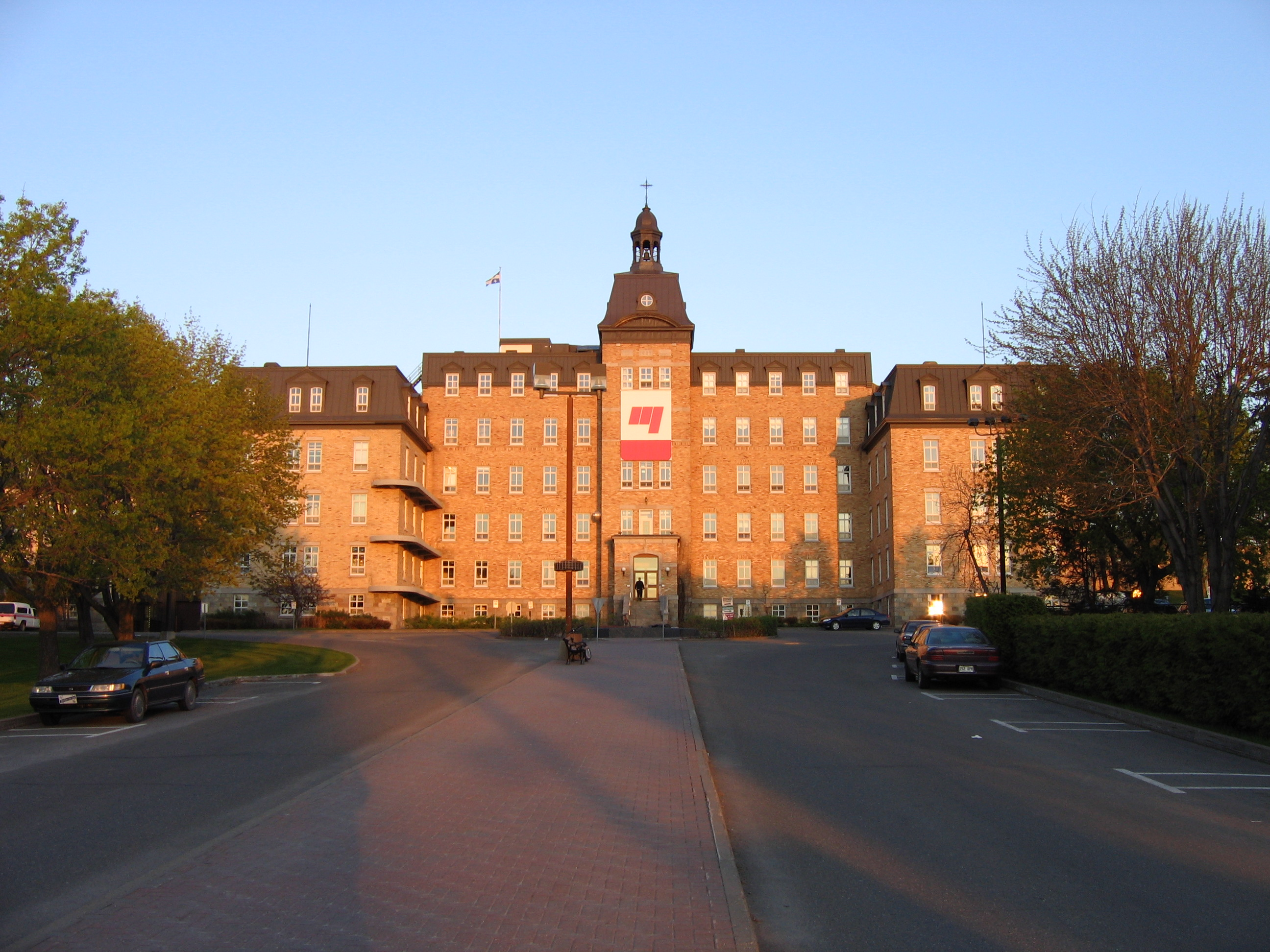 Main entry of the Université du Québec à Rimouski (UQAR), during the sunset, june 2005.